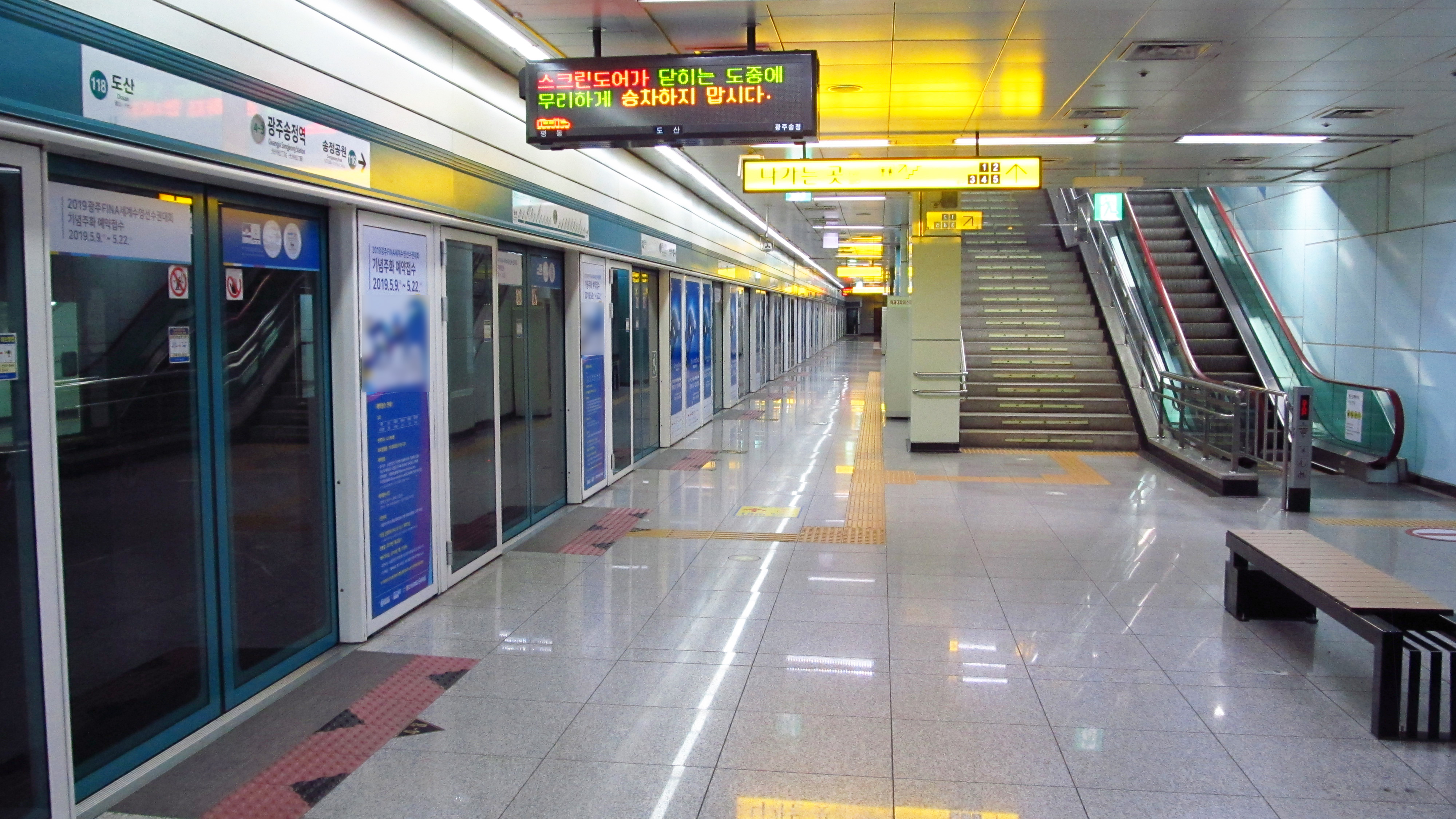 The Sotae/Nokdong-bound platform at Gwangju Songjeong Station on Gwangju Metro Line 1 in Gwangsan-gu, Gwangju, Republic of Korea(South Korea)